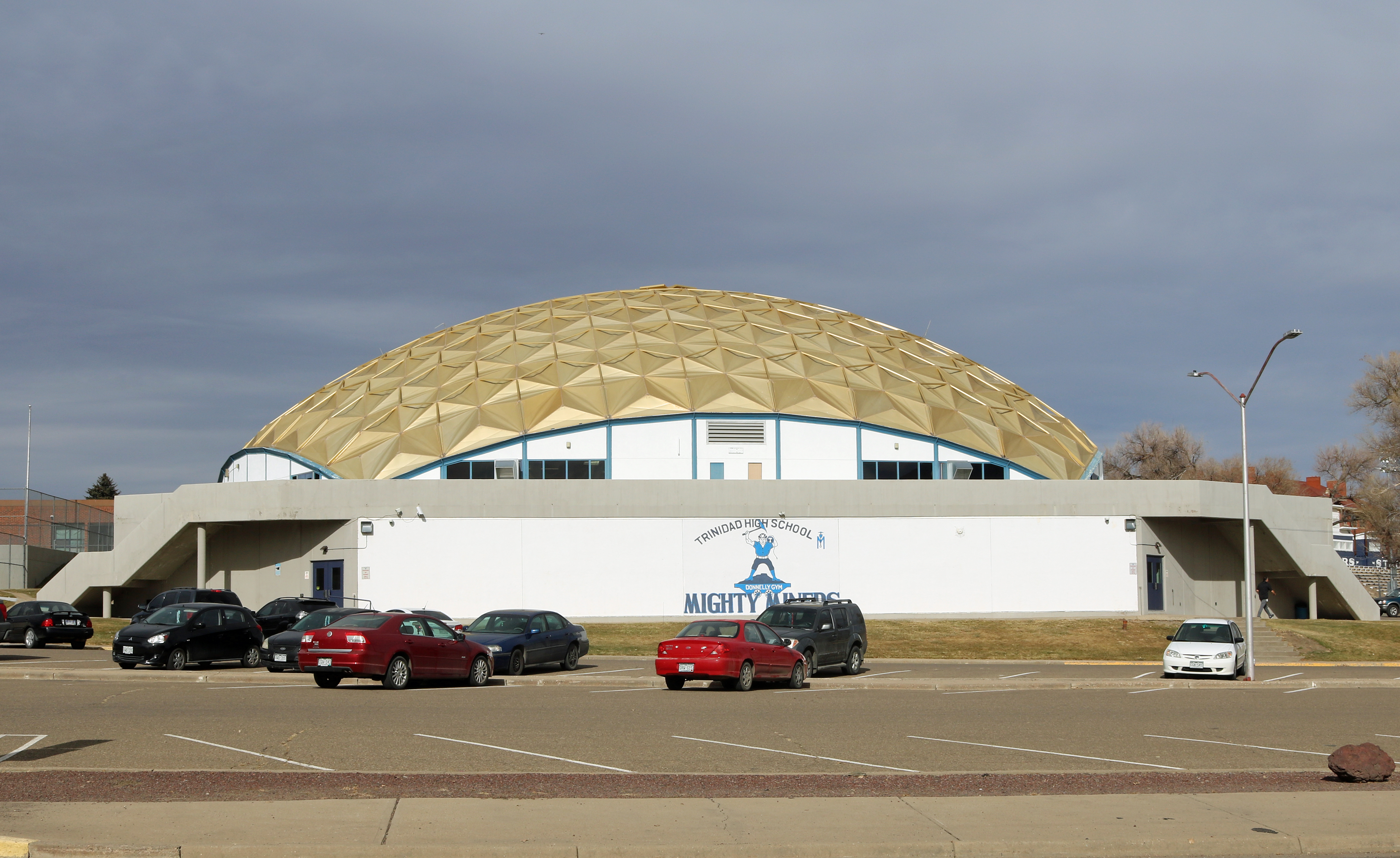 Donnelly Gym at Trinidad High School, located at 816 West Street in Trinidad, Colorado. The picture was taken on Stonewall Avenue.